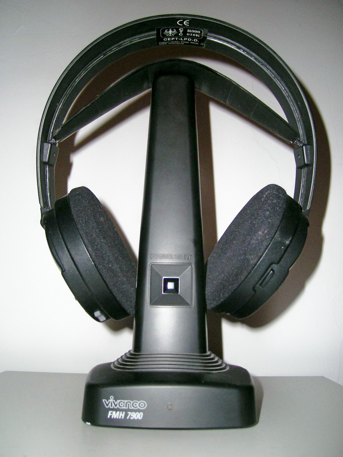 Analog Radio Headphone Vivianco FMH 7900